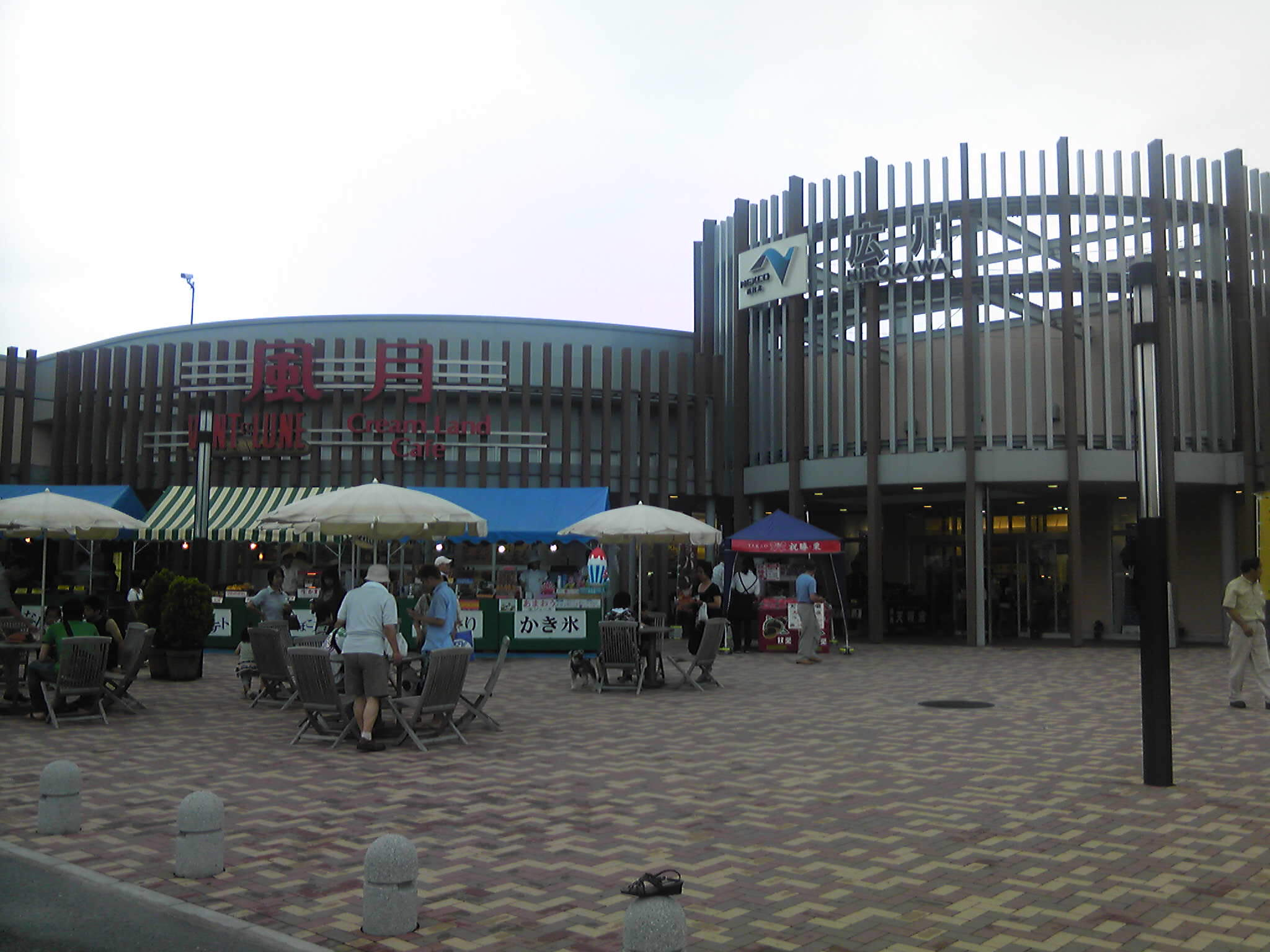 Hirokawa Service Area on the Kyushu Expressway southbound line in Hirokawa Town, Fukuoka Prefecture, Japan